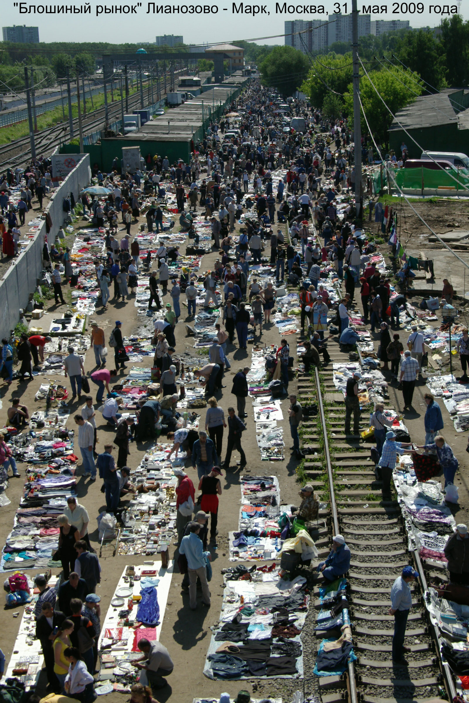 "Flea market" in Moscow, 31.05.2009